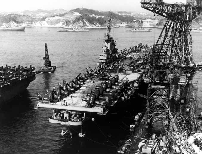 The U.S. Navy aircraft carrier USS Oriskany (CVA-34) moored at Yokosuka, Japan, circa 1952-53. Note the dusting of snow on the flight deck, loaded numerous aircraft of Carrier Air Group 102 (redesignated CVG-12 4 February 1953).A Commencement Bay-class escort carrier is moored alongside and US-built Tacoma-class frigates are visible in the background.